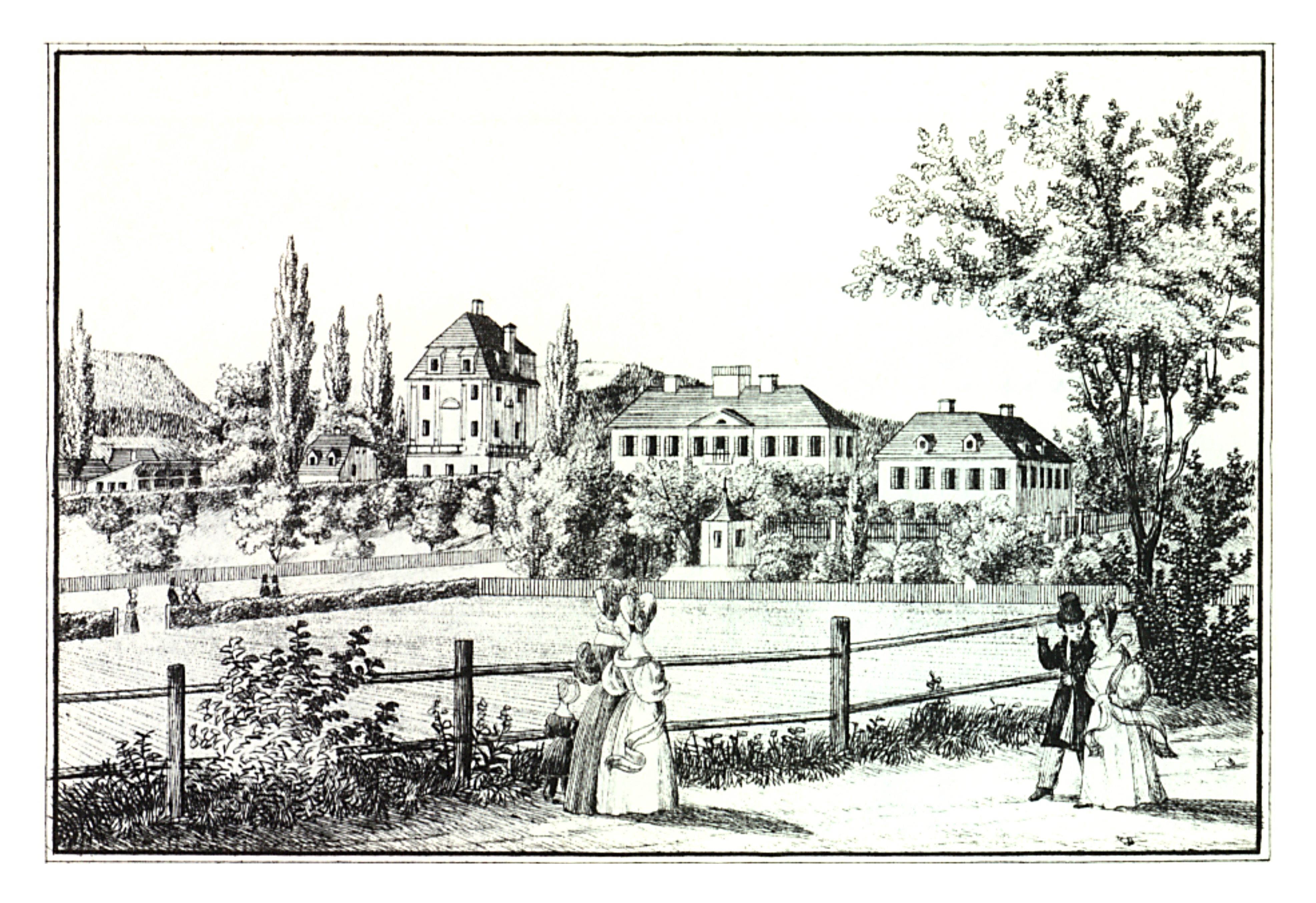 J. F. Kaiser - lithographirte Ansichten der Steyermärkischen Städte, Märkte und Schlösser, Graz 1824-1833 Joseph Franz Kaiser (1786–1859) Alternative names J. F. KaiserDescriptionAustrian printer and editorDate of birth/death 11 March 1786 19 September 1859Location of birth/death Graz (Styria) GrazAuthority control : Q1499963 VIAF: 30629353 ISNI: 0000 0000 3083 0153 LCCN: n87141671 GND: 129880159 NLP: A24960305 WorldCat creator QS:P170,Q1499963 . Scanprojekt Community Projektbudget 2012 This scan or this PDF-file was created within the GLAM-project Bookscanning, supported by Wikimedia Germany and Wikimedia Austria as a part of the community-project to capture books, documents and pictures which are not eligible to copyright or for which the copyright has expired. This document describes or depicts an object which is located in Austria today. Send requests for uncompressed scans to Hubertl. This work is in the public domain in its country of origin and other countries and areas where the copyright term is the author's life plus 100 years or less. You must also include a United States public domain tag to indicate why this work is in the public domain in the United States. This file has been identified as being free of known restrictions under copyright law, including all related and neighboring rights.